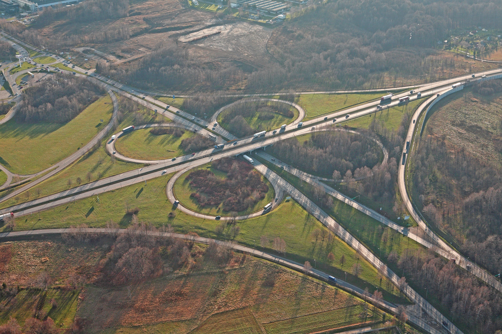 Interchange Komorowice in Bielsko-Biała, Poland. Expressway S1, Highways DK1 and DK52, voivodeship road DW942.